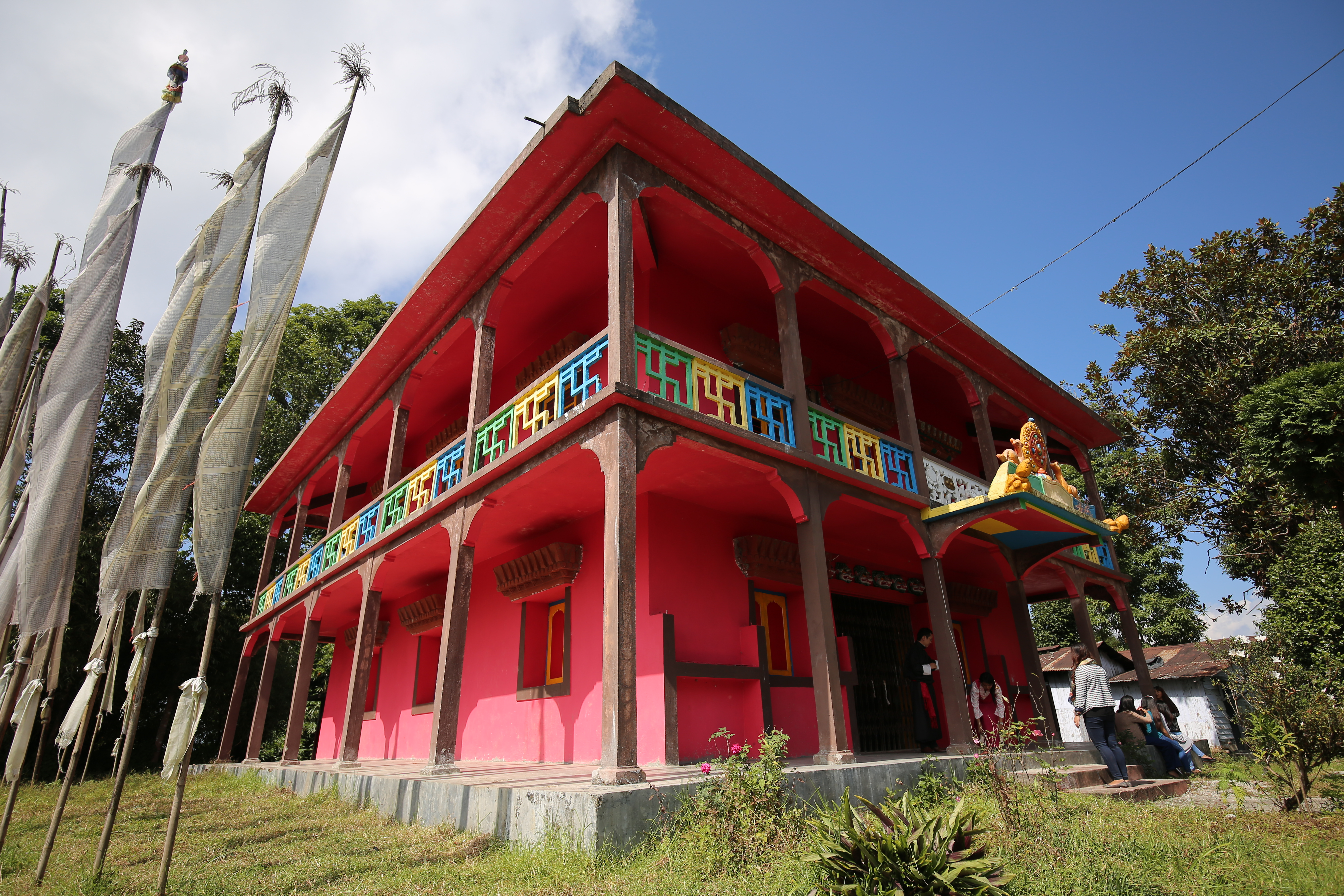 Ging Gonpa